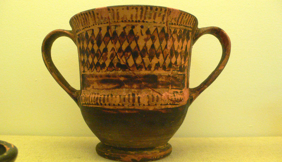 Greek kratter from the phoenician necropolis of Puig des Molins. Museum of Puig des Molins in Ibiza (Spain)